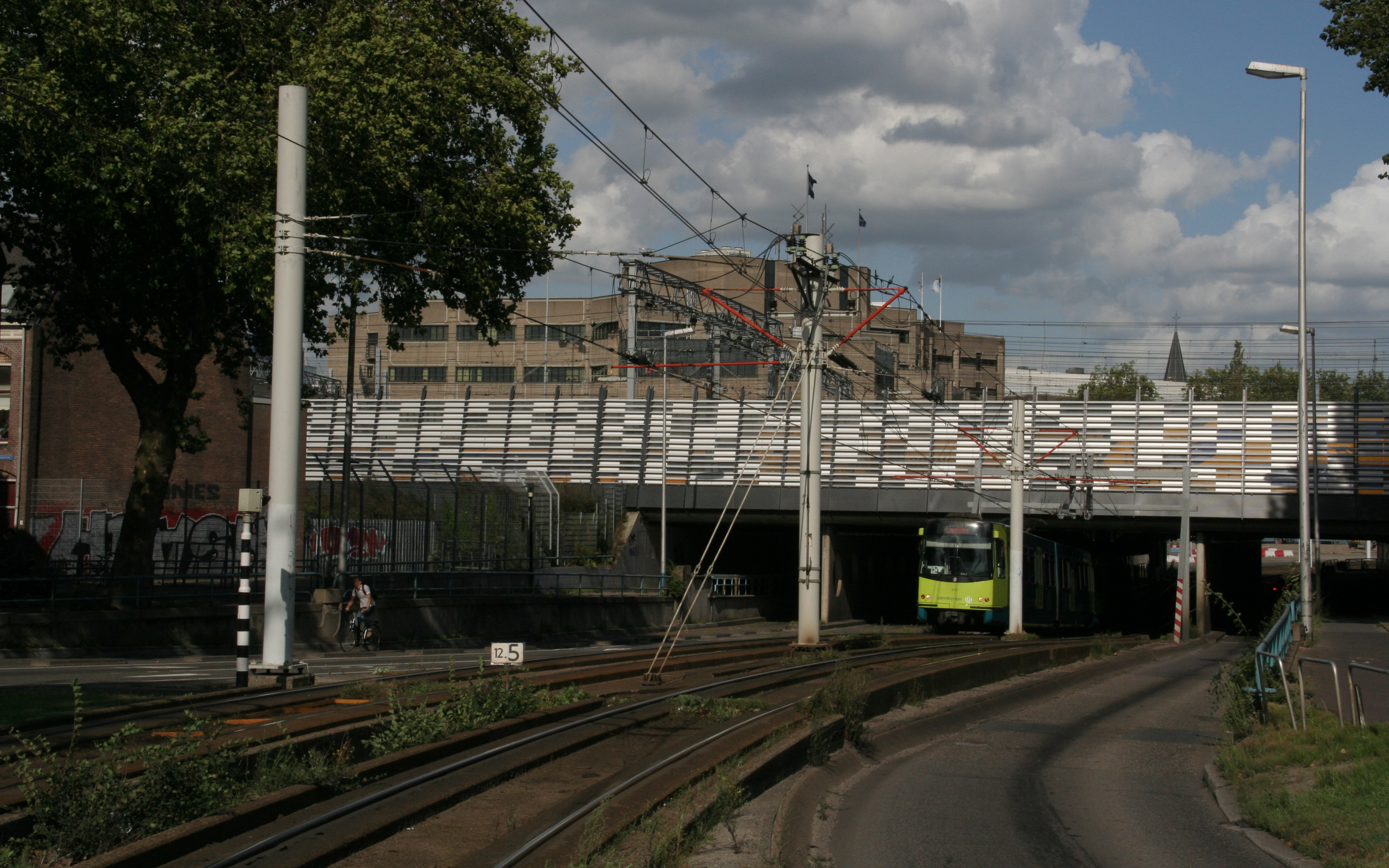 Leidseveertunnel in Utrecht